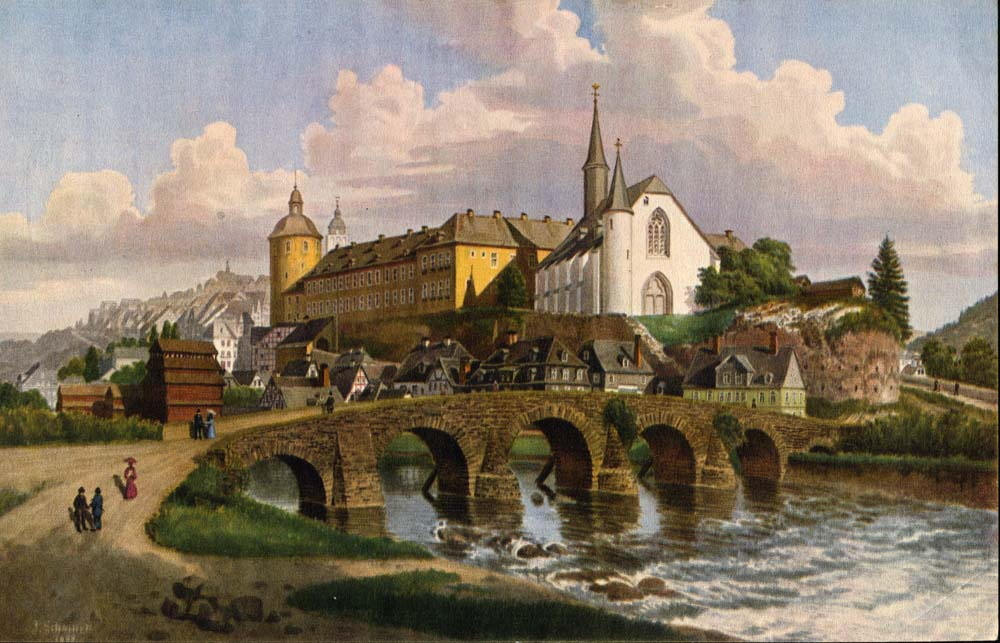 Historic view of the city of Siegen (Westphalia/Germany), ca. 1850. Scan of a painting by Jakob Scheiner (1820–1911). In Siegen, this particular view of town is known as Scheinerblick (“Scheiner’s view”)